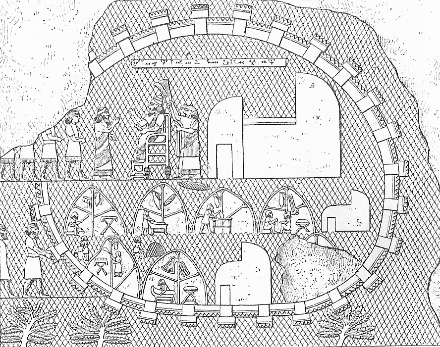 Plan, section and elevation of an assyrian fortified city. Drawing of the relief from Nimrud.